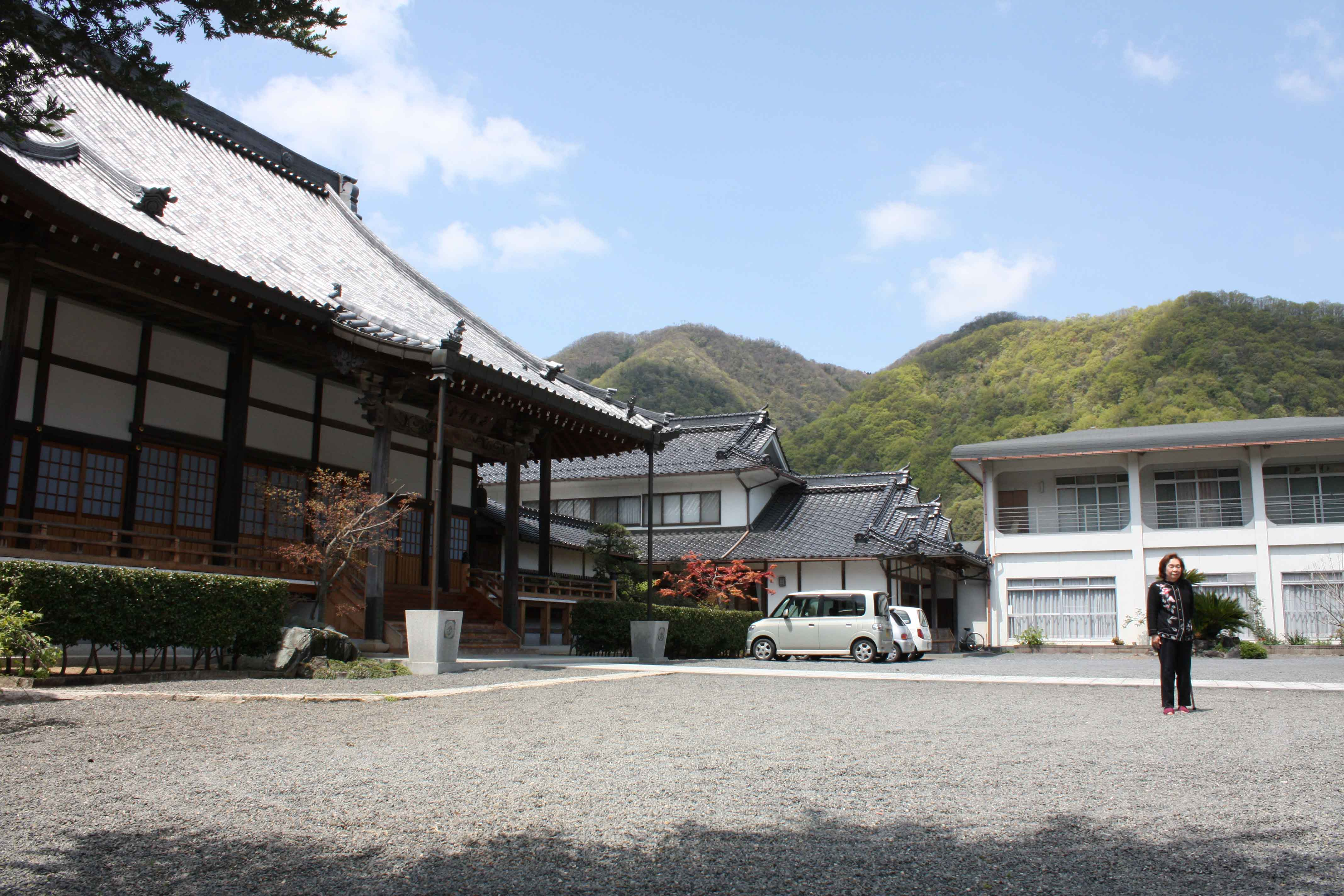 a precinct of Saifukuji